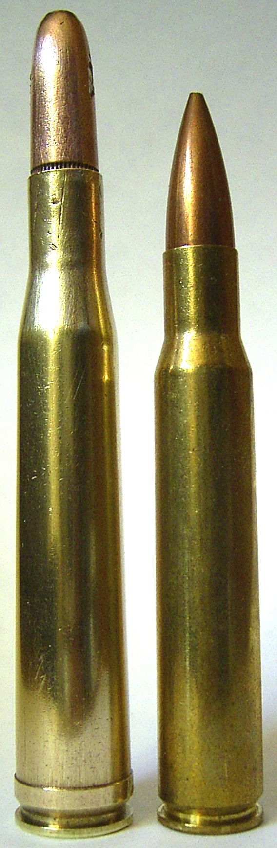 .300 H&H Magnum and .30-06 Springfield Cartridges